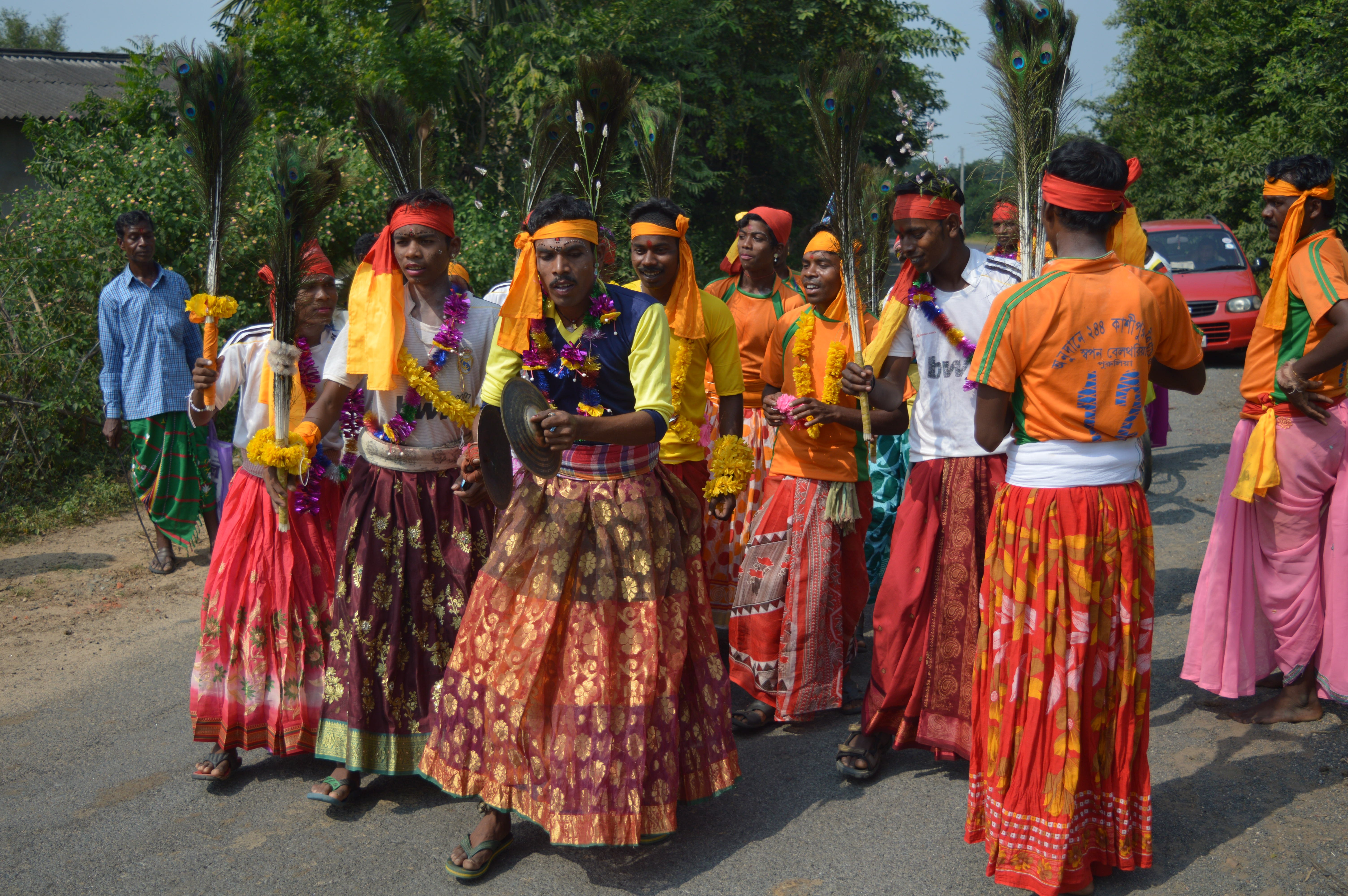 Dasai Dance is a tribal Santali dance of the state of West Bengal and Jharkhand of India.